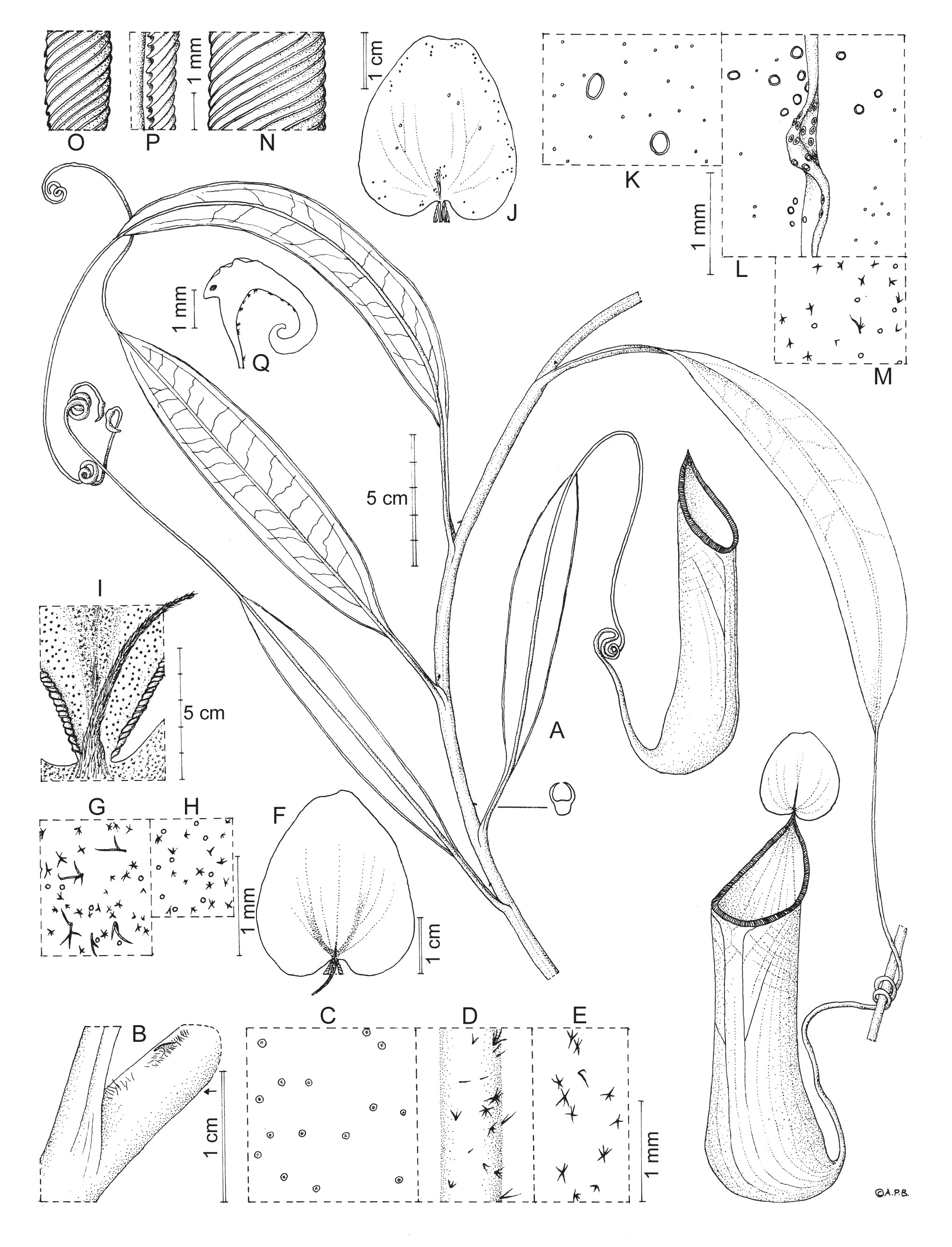 Original caption: "Nepenthes leyte sp. nov. A. Habit, climbing stem with upper pitchers. B. Stem section showing axillary hair patch and supra-axillary bud. C. Lower surface of leaf-blade, with sessile glands. D. Midrib of leaf-blade, lower surface, stellate to simple hairs. E. Midrib of leaf-blade, upper surface with stellate hairs. F. Upper lid of pitcher, upper surface. G. Indumentum of upper surface of lid, over nerve. H. As G but distant from nerve. I. Spur of upper pitcher and junction of lid with peristome (inverted). J. Lid of upper pitcher, lower surface. K. Detail of J showing large nectar glands. L. Detail of J showing midline ridge with appendage and type (1) nectar glands. M. Indumentum of outer pitcher surface. N. Peristome of upper pitcher viewed from above. O. Peristome viewed from inside pitcher. P. Peristome dissected to expose the inner edge, with teeth. Q. Peristome, transverse section (outer surface on right). All drawn from Argent et al. 99214 by Andrew Brown."